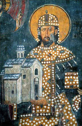 Fresco (wall painting) of King Dragutin, patron of the St. Achilleos church, Arilje, 1296. King Dragutin is depicted here with a model of his endowment. (detail)